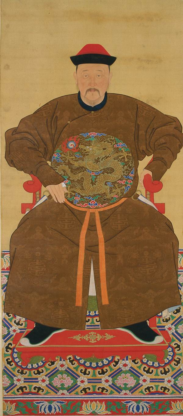 Yintang, the 9th son of Kangxi Emperor Ink and colors on silk, H: 171.4 W: 75.6 cm.